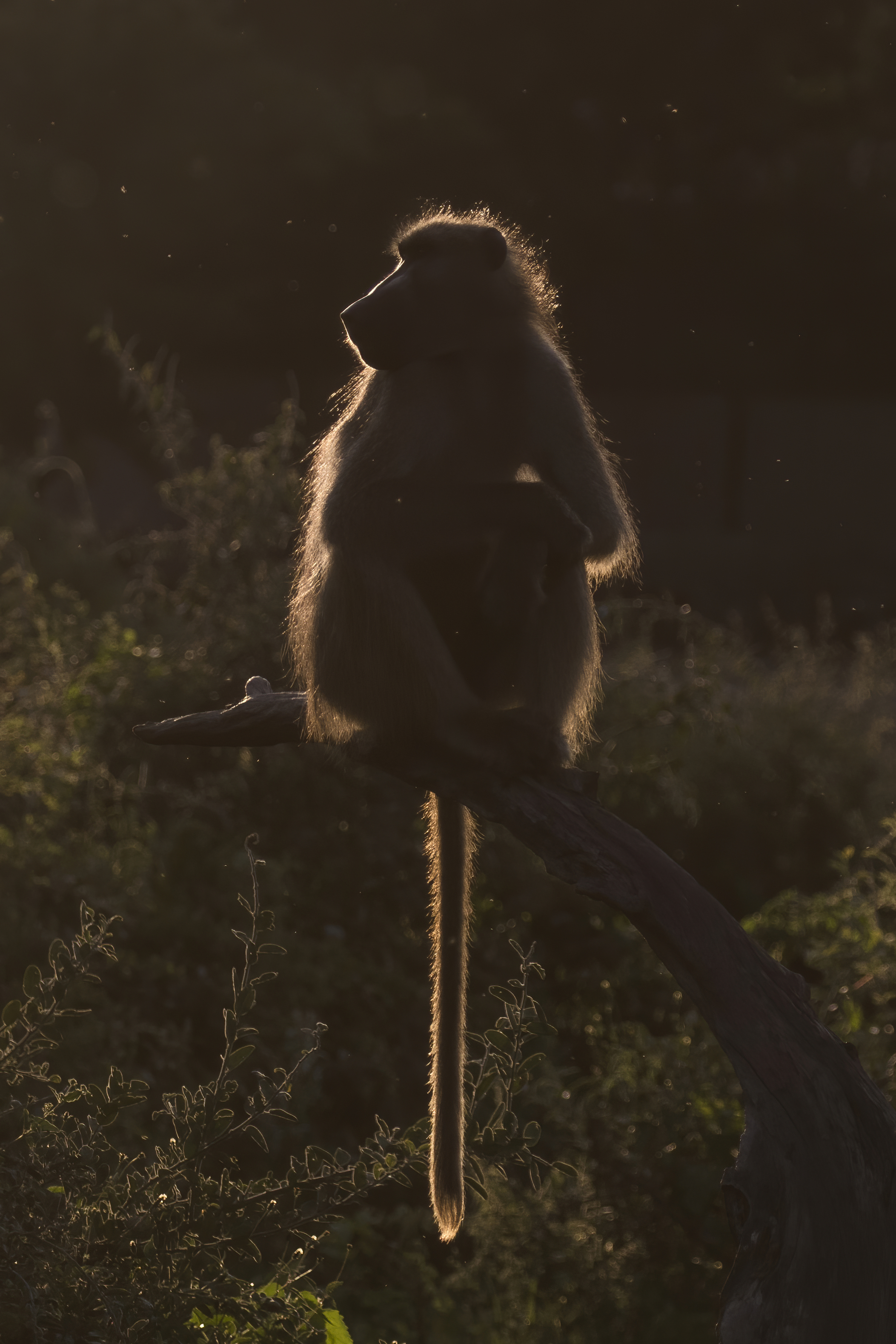 Chacma baboon (Papio ursinus ruacana), Matetsi Safari Area , Zimbabwe